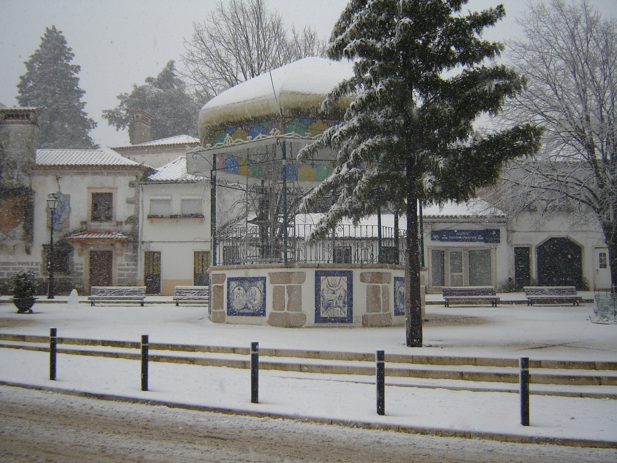 Minde's Coreto